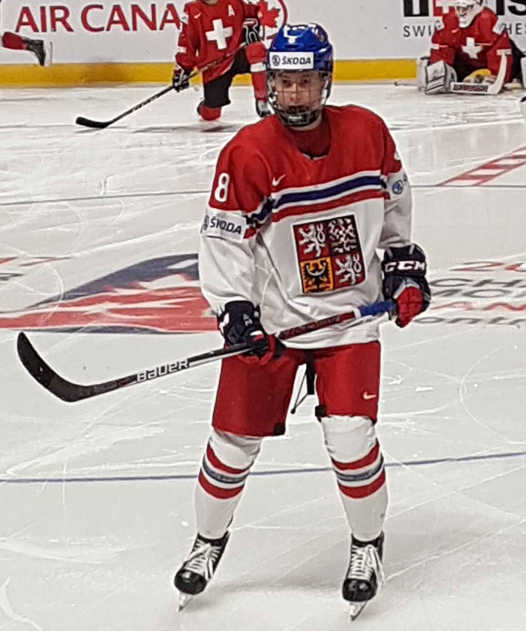 Martin Nečas playing for the Czech Republic against Switzerland at the 2017 World Junior Ice Hockey Championships.